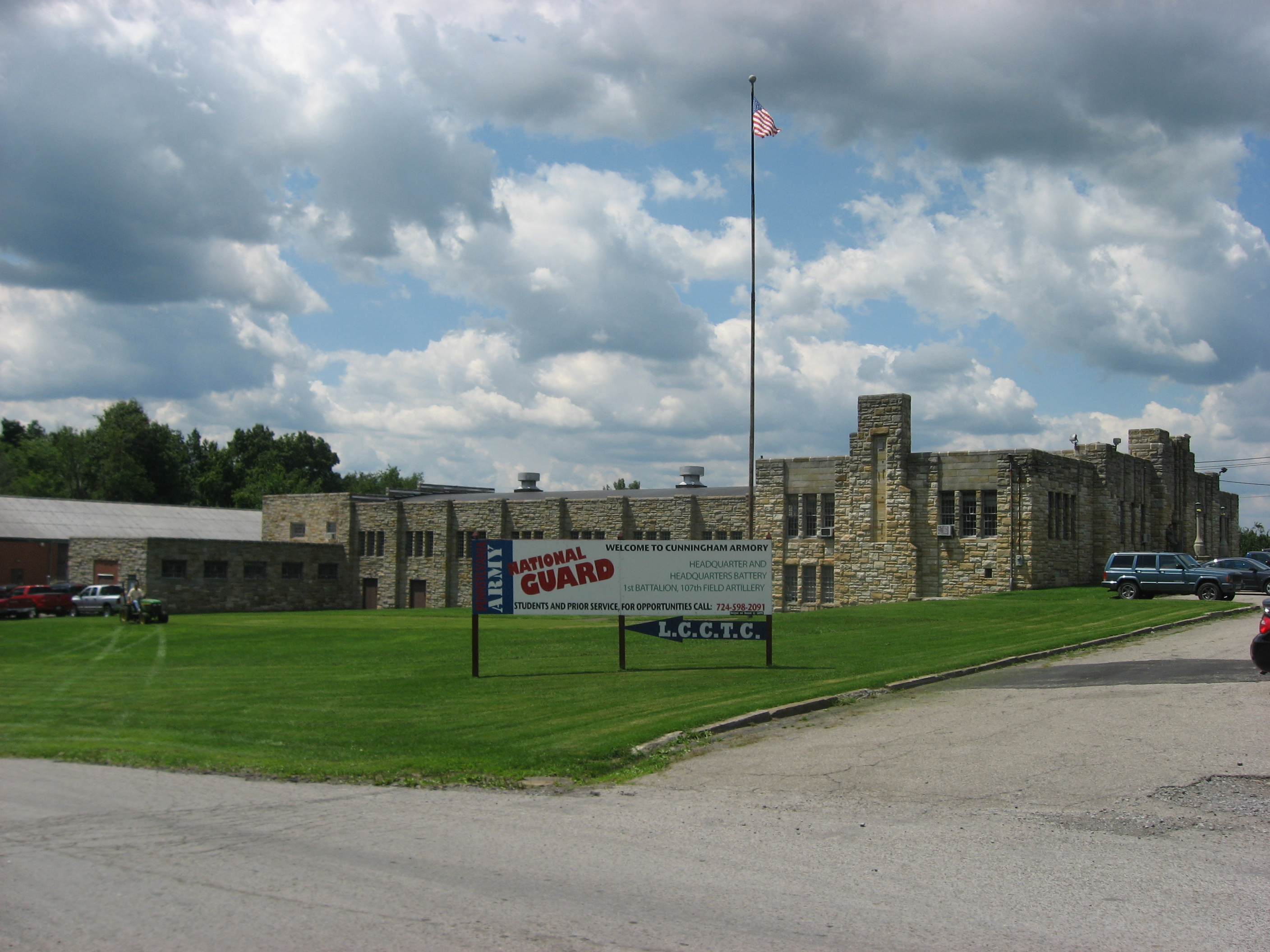 Eastern side of the New Castle Armory, located at 820 Frank Avenue in Shenango Township, Lawrence County, Pennsylvania, United States, on the southern side of the city of New Castle. Built in 1938, it is listed on the National Register of Historic Places.